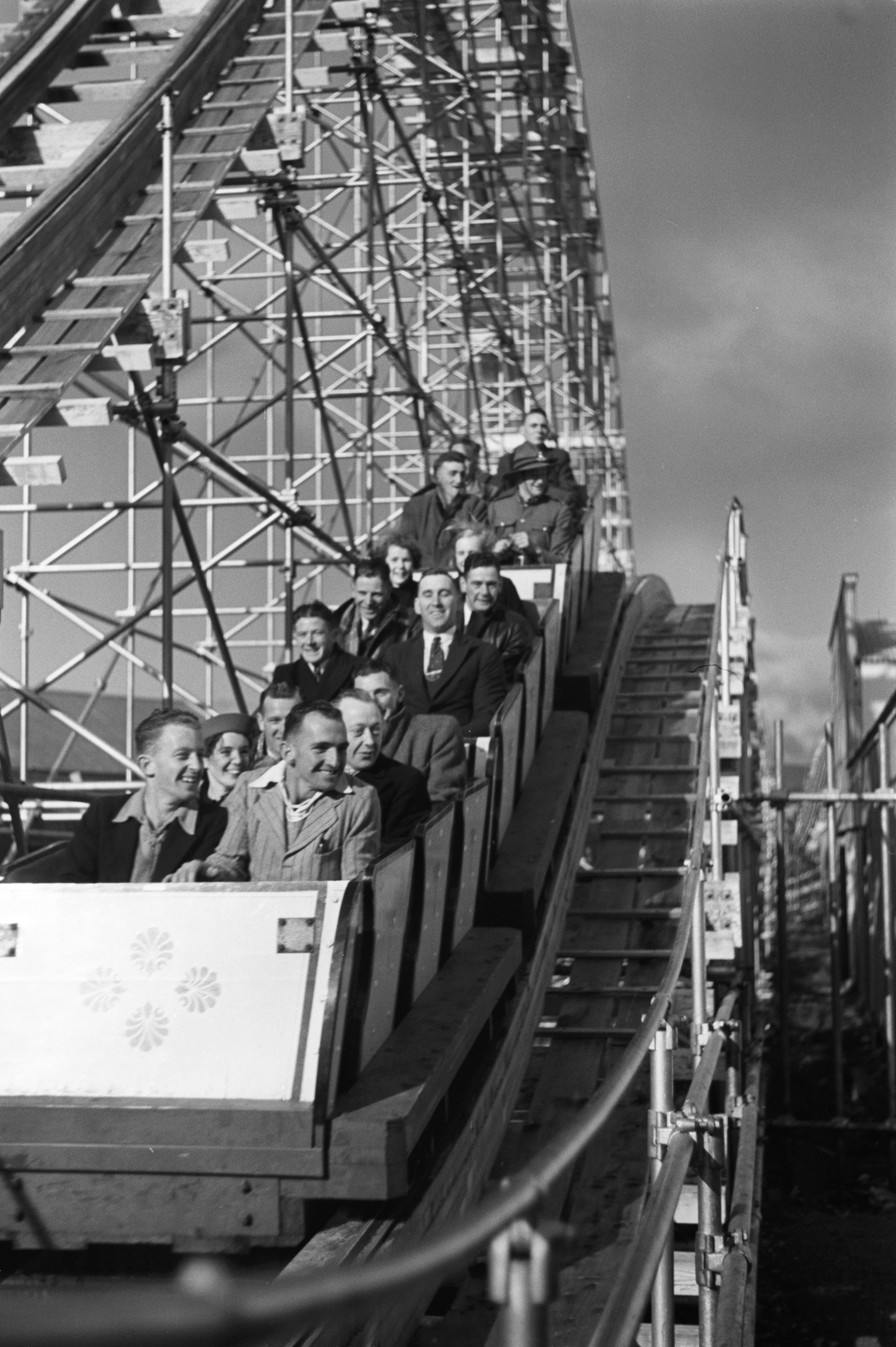 Rollercoaster, New Zealand Centennial Exhibition, Wellington. April 1940